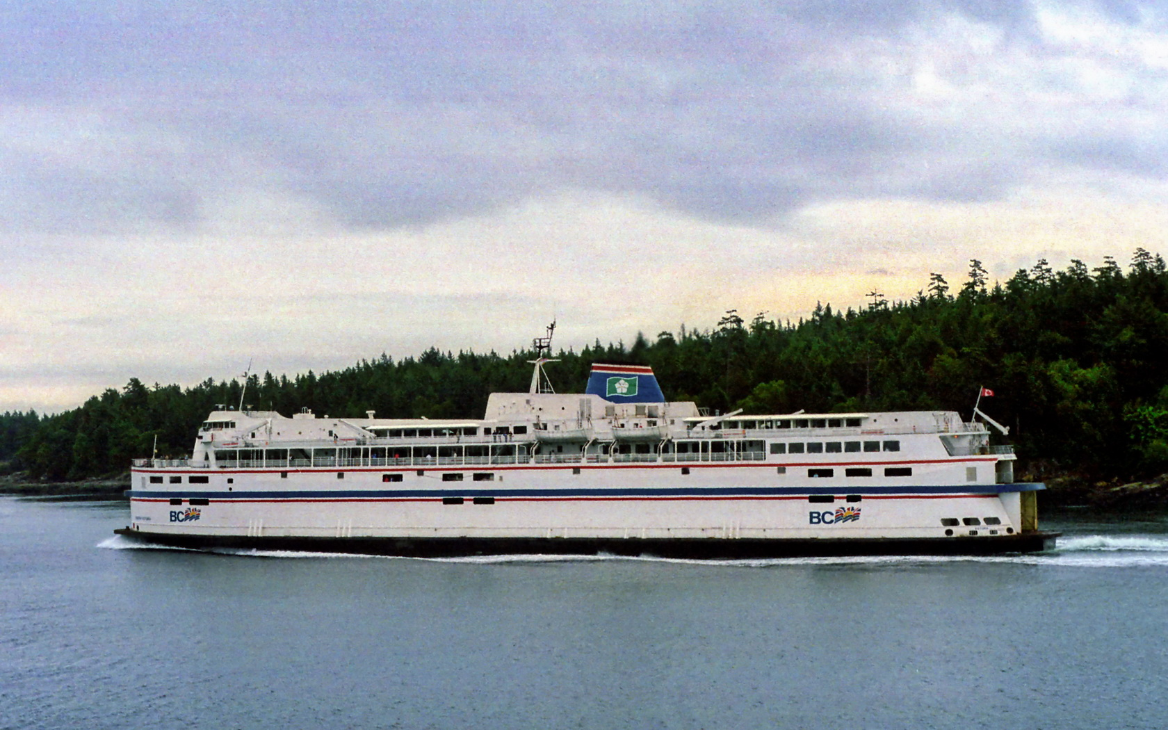 This is along the Mayne Island shoreline near Laura Bluff